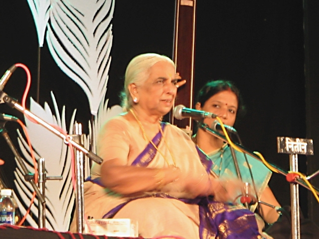 Girija Devi performs in Pune at the Alpabachath Sanskrutik Bhavan on November 7, 2006 - seen explaining the meaning of the Thumri "Jaao Tum Wahi Shaam" in Mishra Khamaj in the initial stages - photo shot by Aparna Subramanian